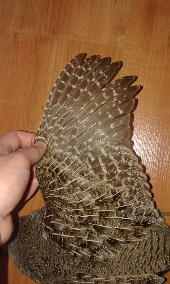 Grey partridge wing details